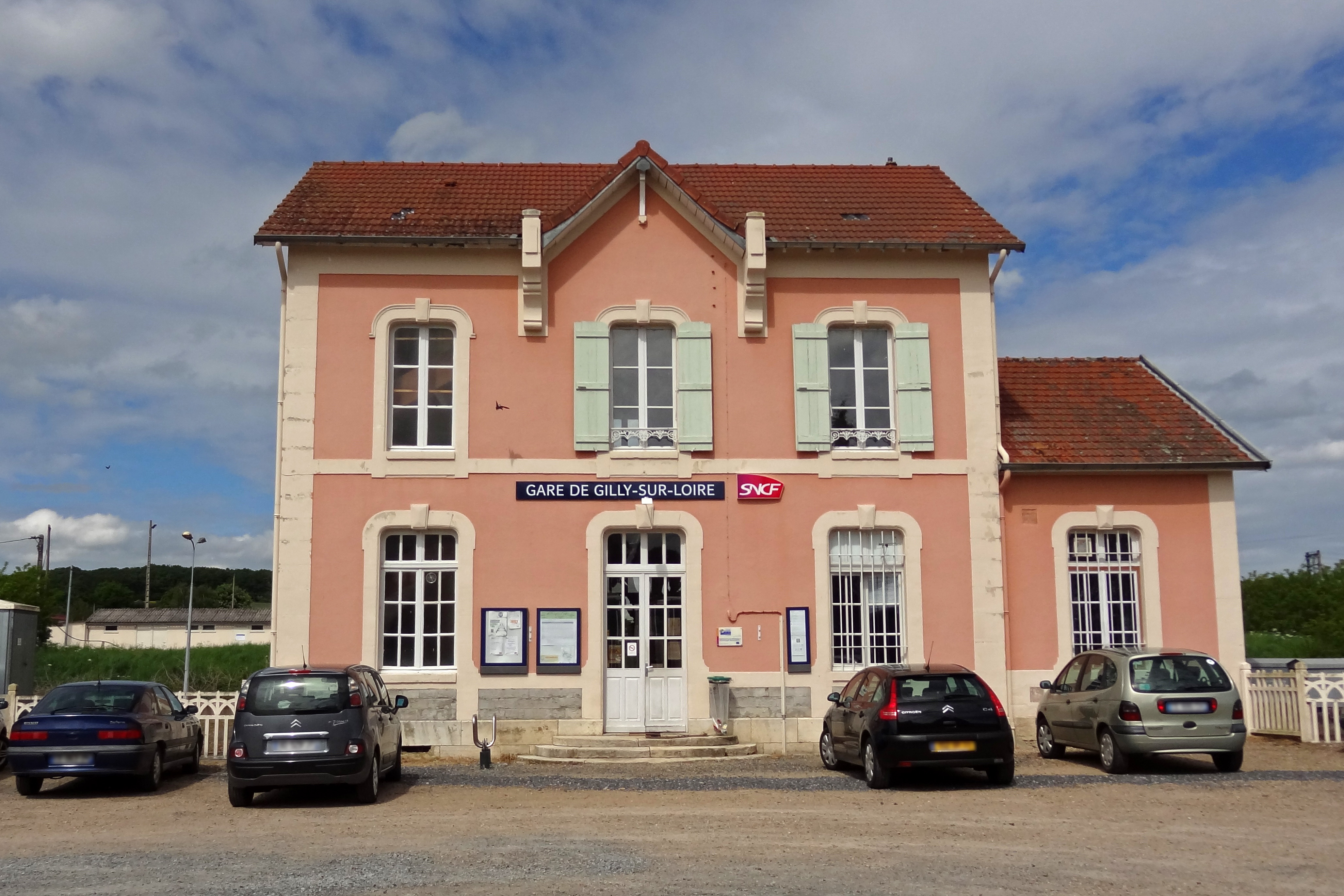 Gilly-sur-Loire station, France